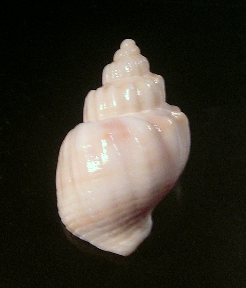 Sydaphera undulata (G.B. Sowerby II, 1849), a nutmeg snail in the family Cancellariidae